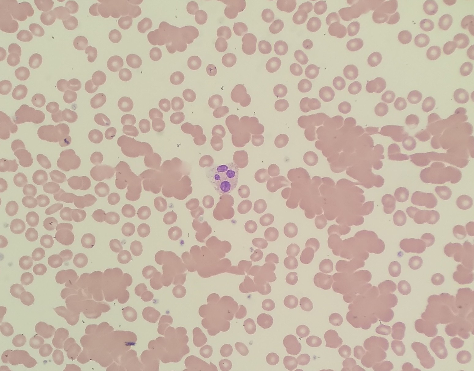 Blood film showing red blood cell agglutination due to cold agglutinin